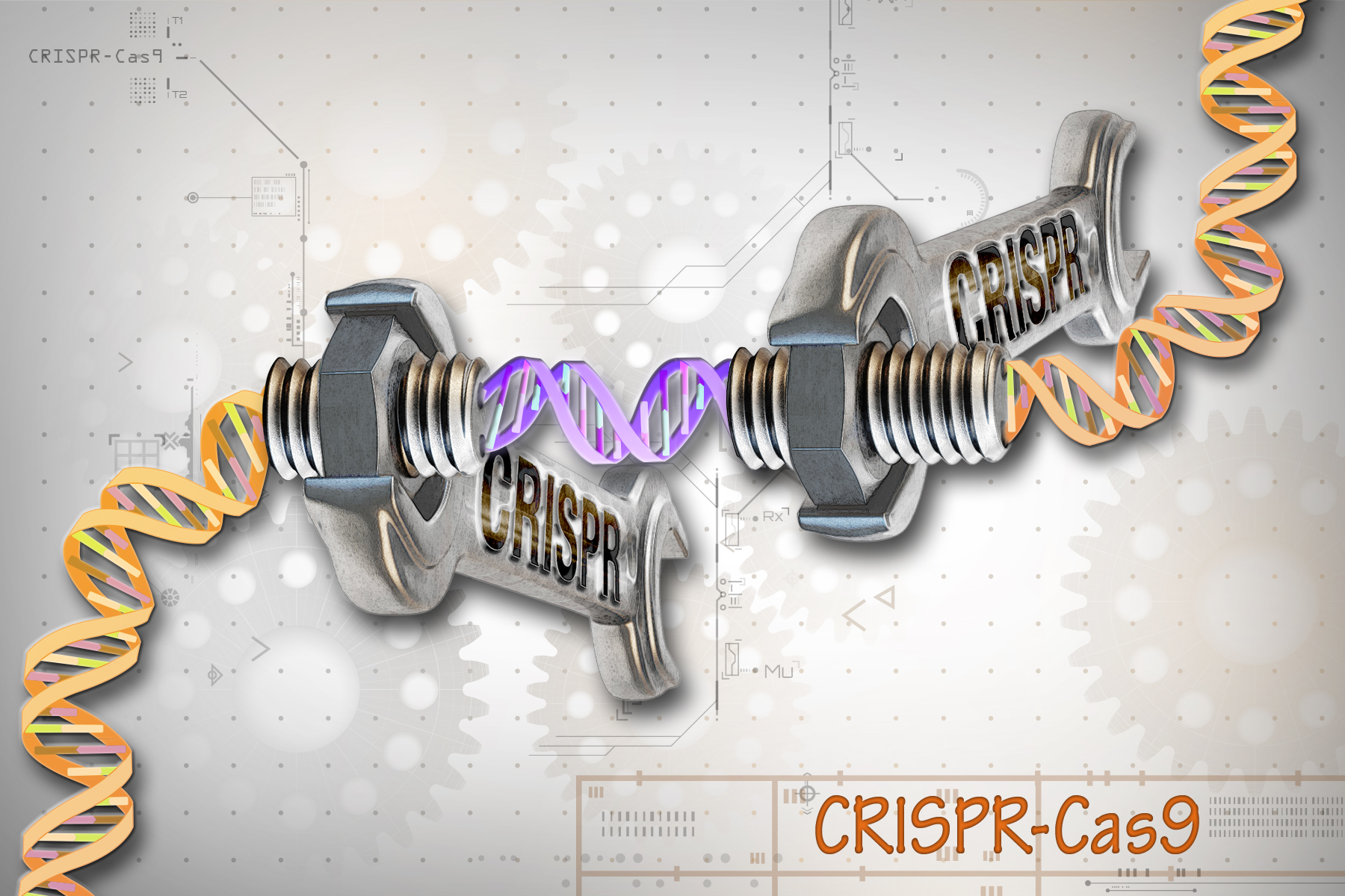 CRISPR-Cas9 is a customizable tool that lets scientists cut and insert small pieces of DNA at precise areas along a DNA strand. The tool is composed of two basic parts: the Cas9 protein, which acts like the wrench, and the specific RNA guides, CRISPRs, which act as the set of different socket heads. These guides direct the Cas9 protein to the correct gene, or area on the DNA strand, that controls a particular trait. This lets scientists study our genes in a specific, targeted way and in real-time.